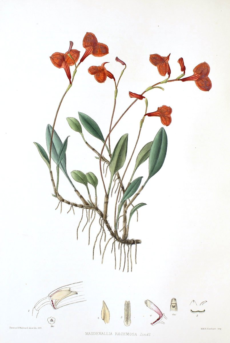 Illustration of Masdevallia racemosa from Florence H. Woolward: The Genus Masdevallia